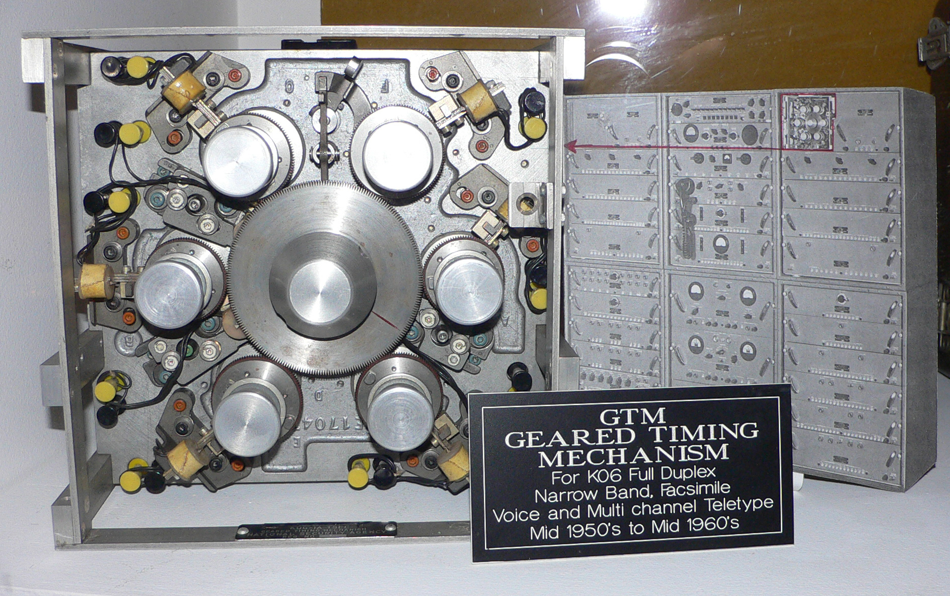 Pictures taken by myself at the US National Cryptologic Museum.